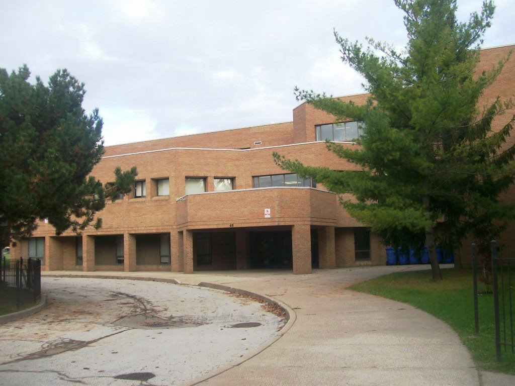 View of Regina Pacis CSS as Monsignor Fraser College, Norfinch campus, Oct. 2013.